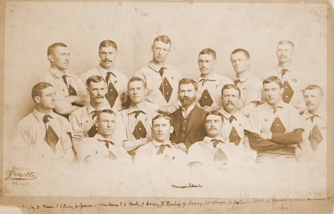 1886 St. Louis Maroons baseball teamTop row, left to right: Al Bauer (P), Charlie Sweeney (P), Jerry Denny (3B), Emmett Seery (LF), John Cahill (RF), Jack Glasscock (SS)Middle row, left to right: Henry Boyle (P), Jack McGeachey (CF), Egyptian Healy (P), Gus Schmelz (Mgr.), Tom Dolan (C), John Kirby (P), Alex McKinnon (1B)Bottom row, left to right: Joe Quinn (CF), Fred Dunlap (2B), George Myers (C)